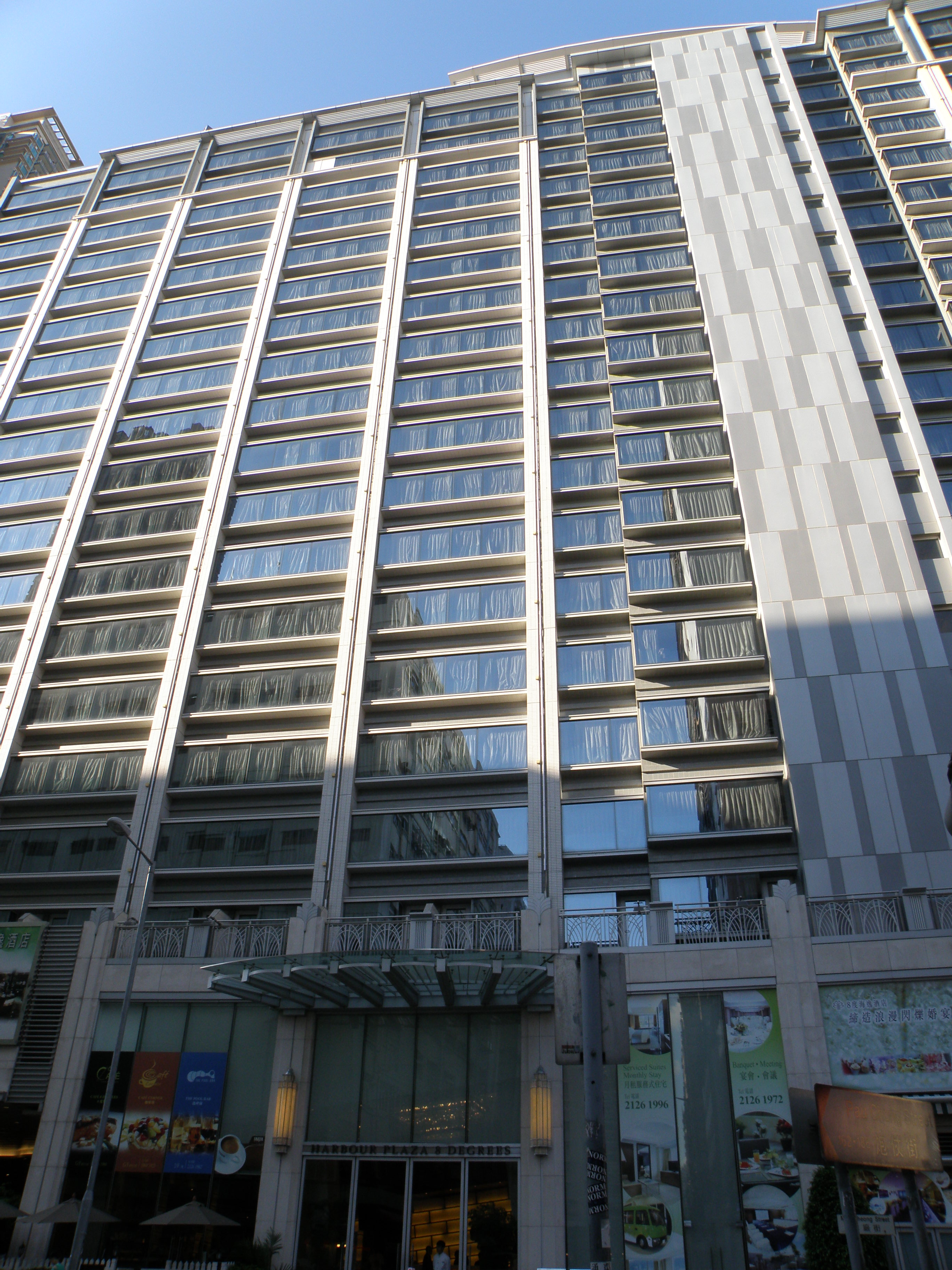 Habour Plaza 8 Degree in To Kwa Wan, Hong Kong.